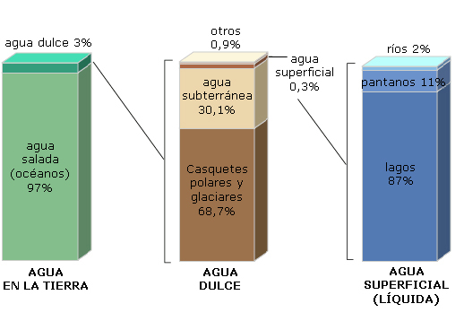 water on earth